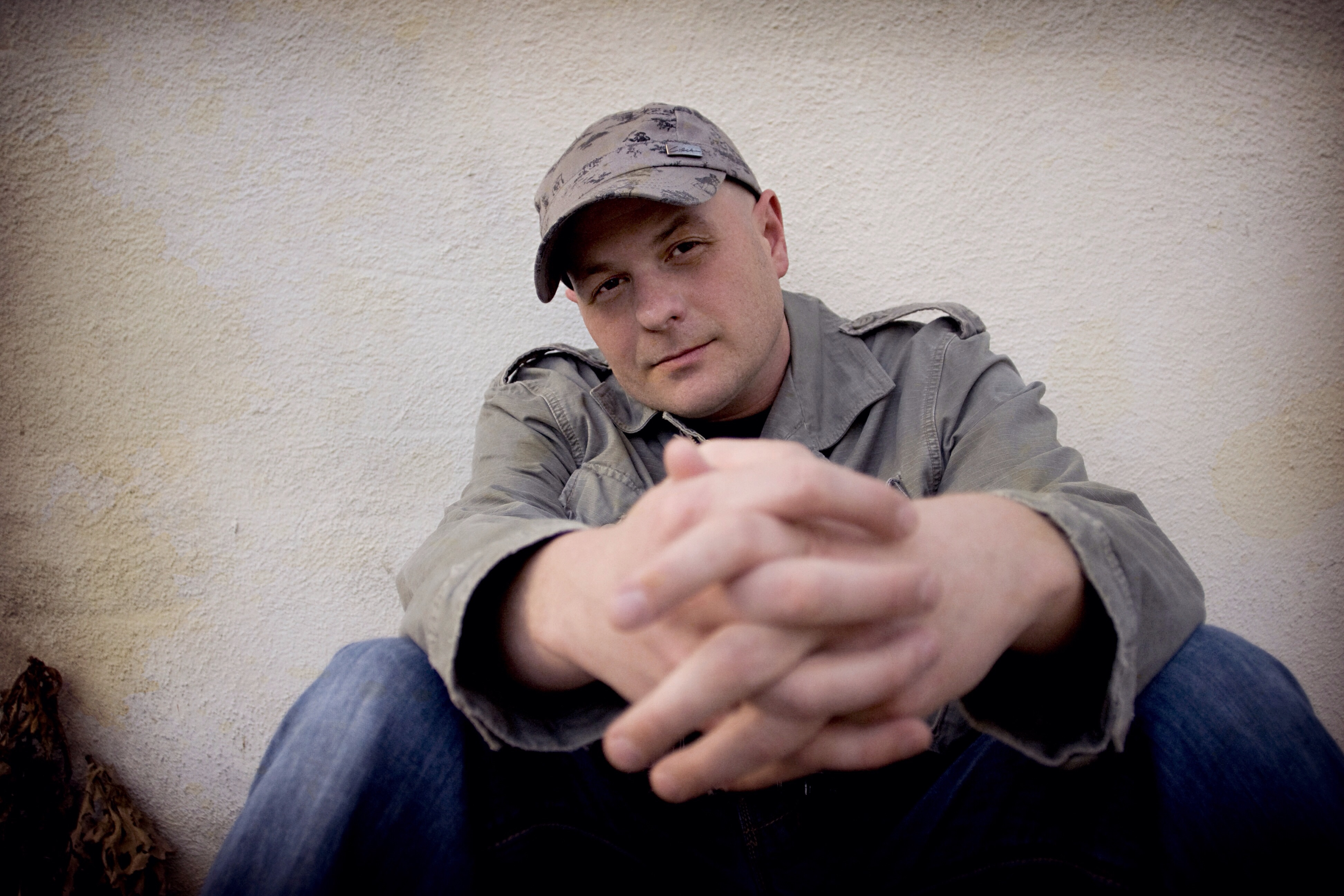 Dj Josh One